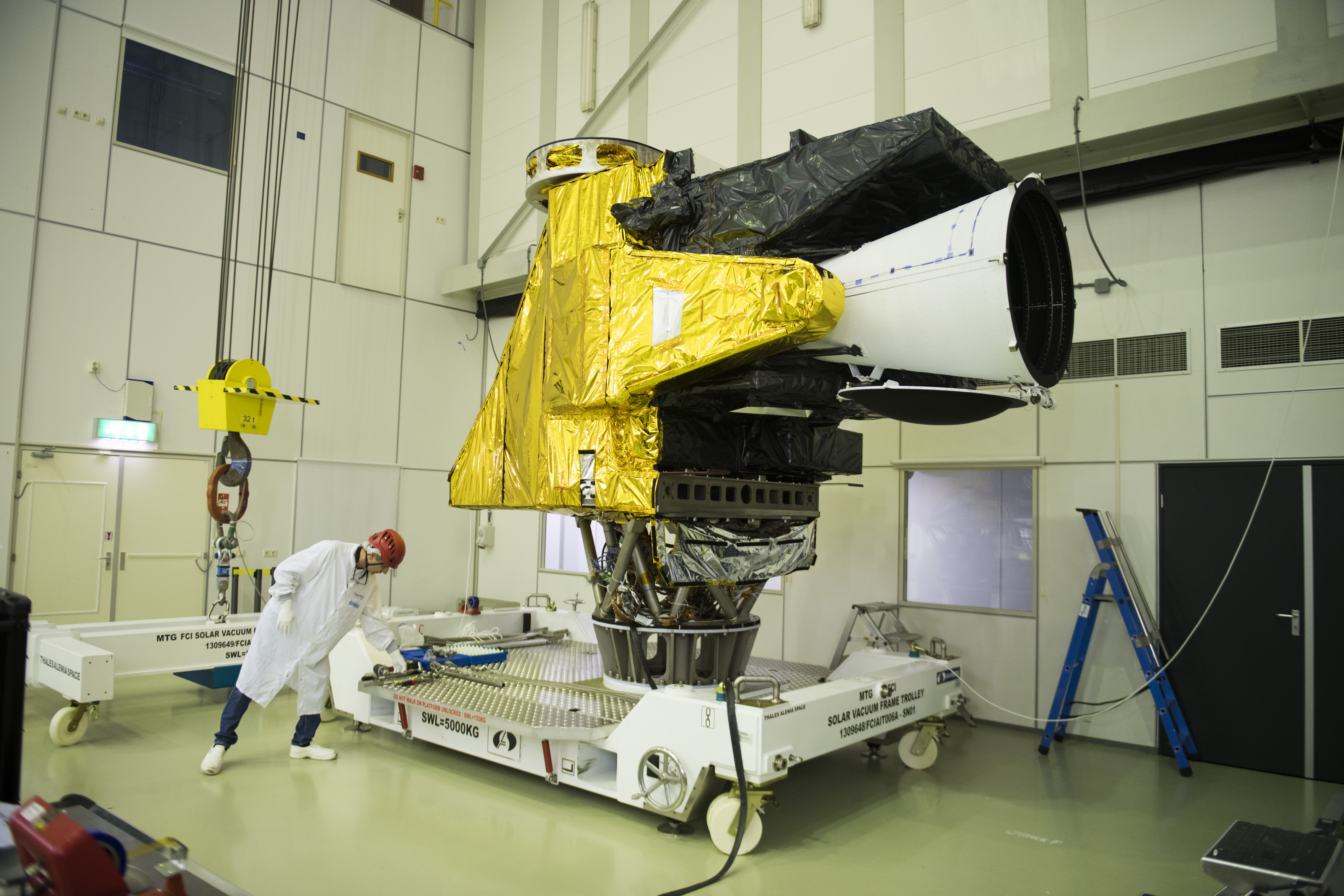 A test model of the main imager for Europe’s forthcoming Meteosat Third Generation weather satellite being prepared for simulated space testing at ESTEC's Test Centre in June 2018. Developed by Thales Alenia Space, this ‘structural and thermal model’ test version of the mammoth Flexible Combined Instrument will provide state of the art measurements of Earth’s atmosphere across 16 visible and infrared channels.